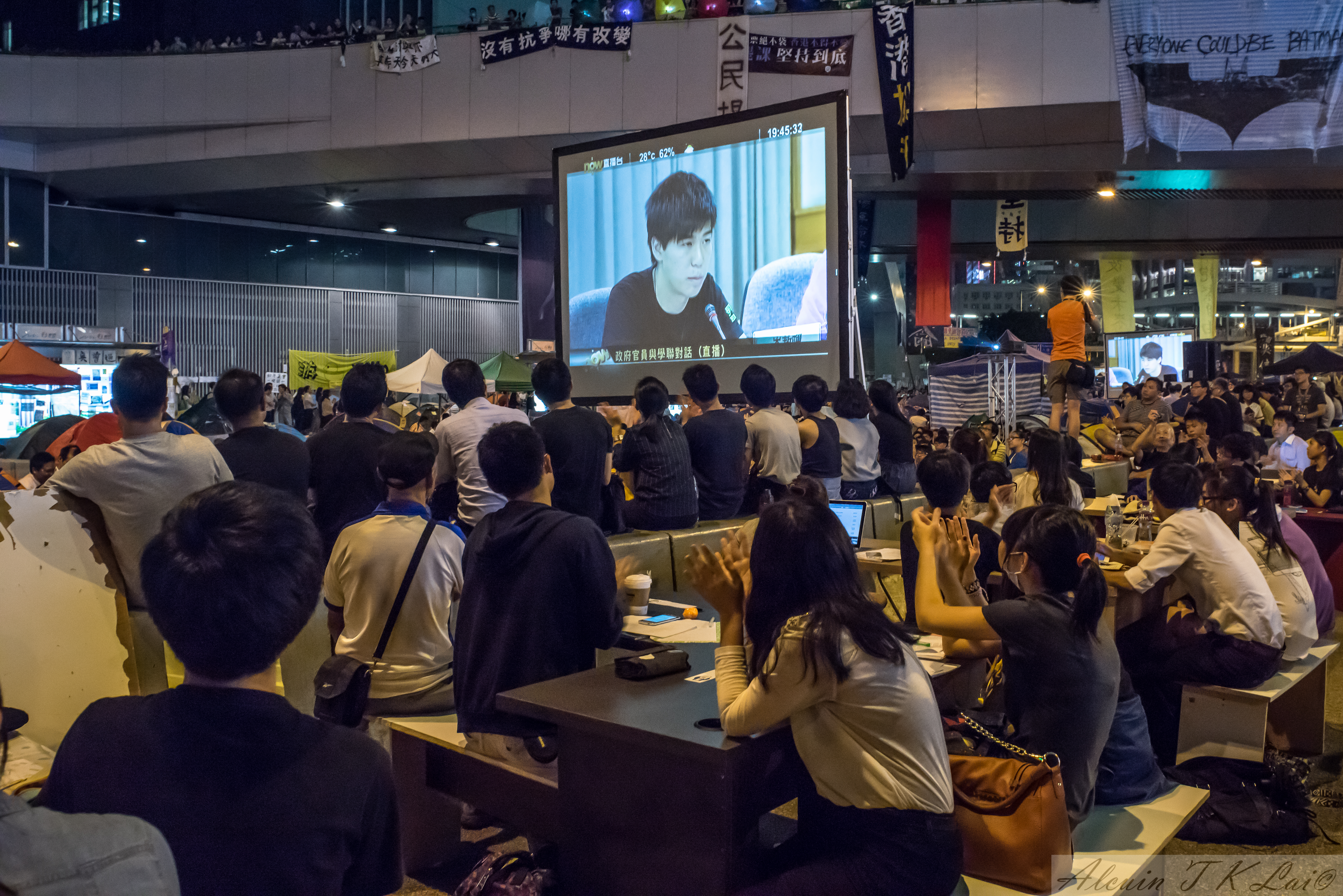 Umbrella Revolution Protesters Watching Gov VS Students Dialogue TV Live